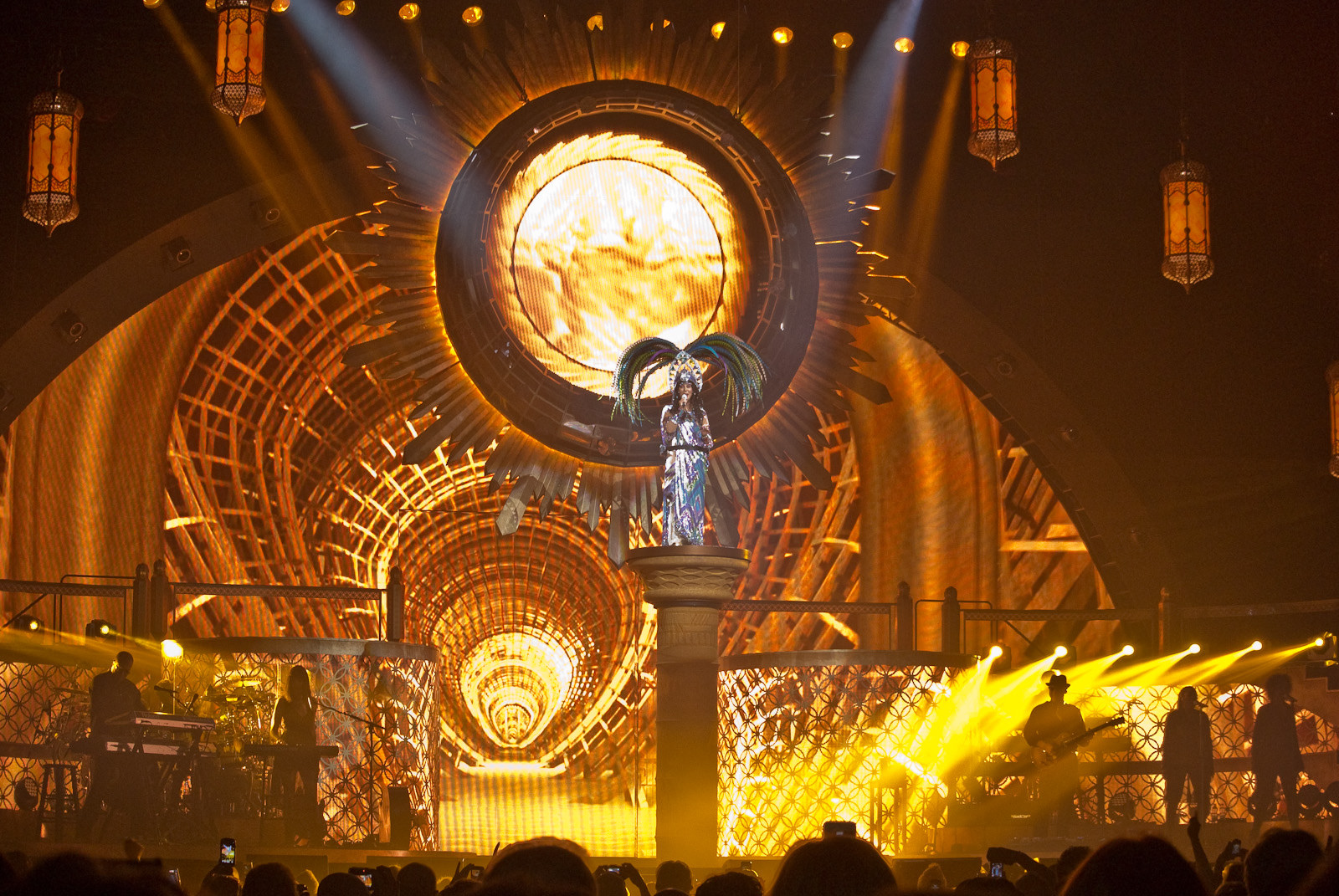 Cher performing live in concert, 2014.